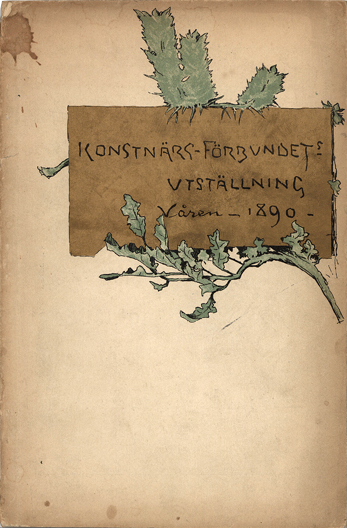 Catalogue of the exhibition by members of ‘Konstnärs-förbundet’ in the spring of 1890 in Stockholm.